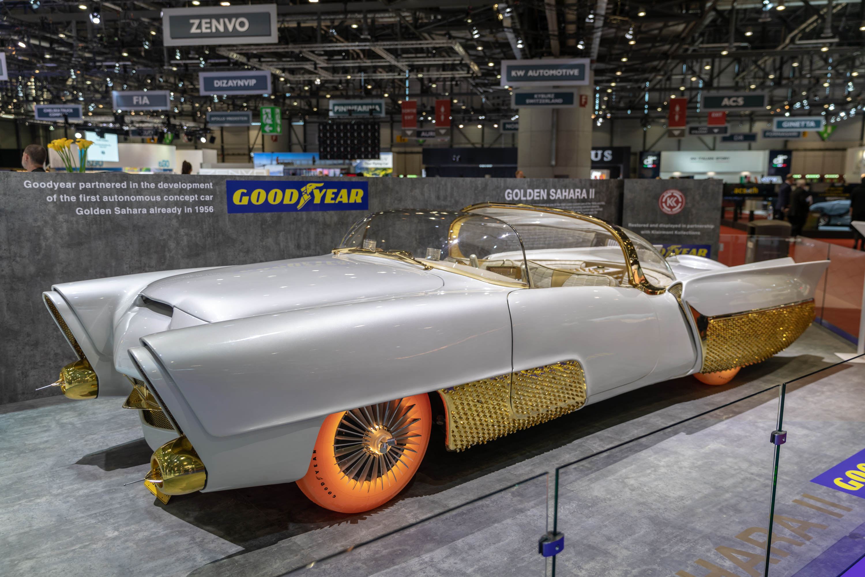 Goodyear at Geneva International Motor Show 2019, Le Grand-Saconnex